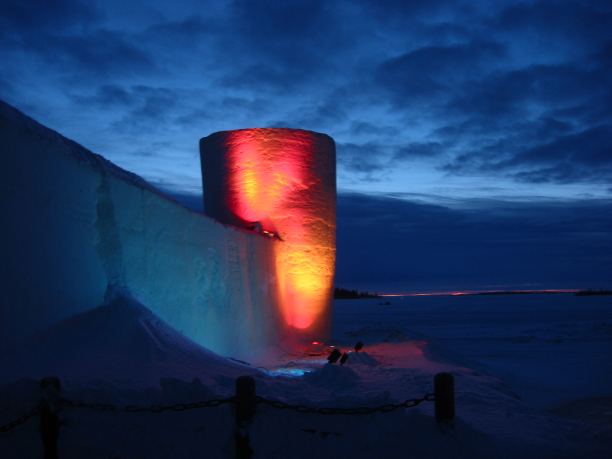 SnowCastle in Kemi, Finland 2006 Dmitry Makarov